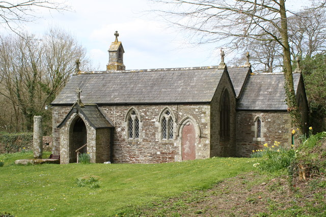 Old Kea Mission Chapel Built in 1862, this small chapel serves as the place of worship as all that remains of the original church is the nearby ruined tower. Details of this listed building here